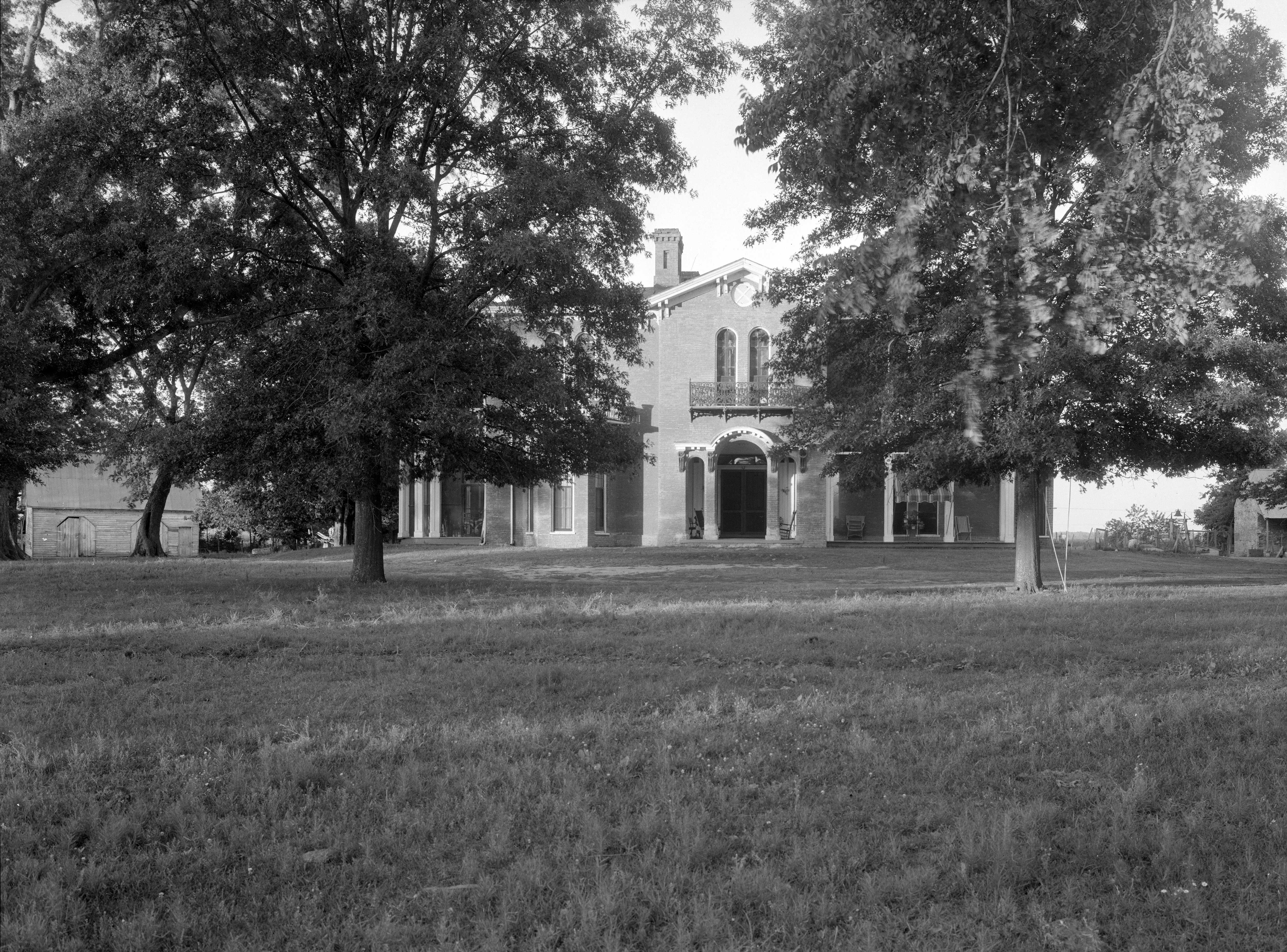 Mt. Holly Plantation house, built in 1840, still occupied. Near Foote, Mississippi.